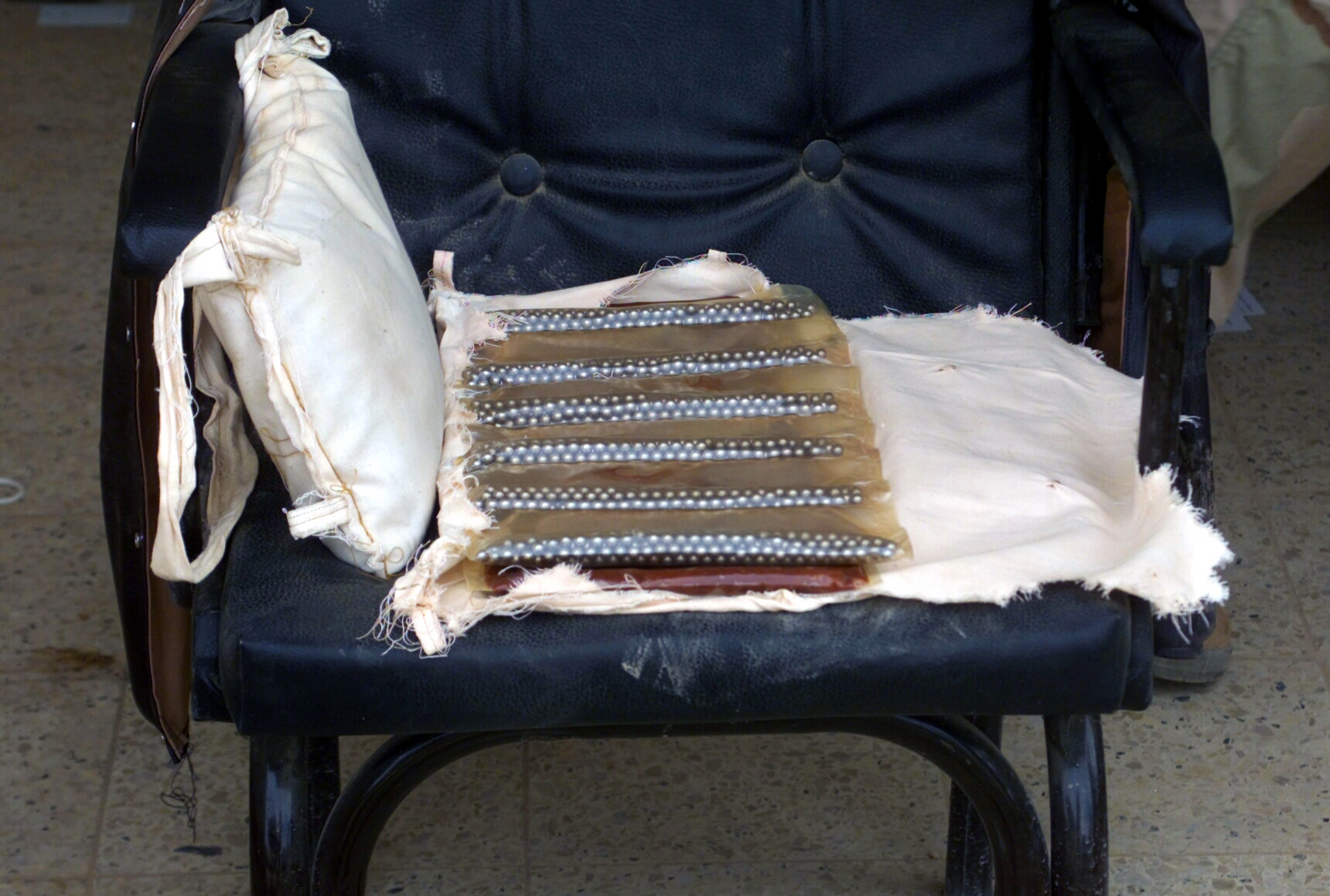 Baghdad, Iraq (Apr. 12, 2003) -- Metal ball-bearings found by Explosive Ordnance Marines assigned to Combat Service Support Company One One Seven (CSSC-117), Regimental Combat Team 7, 1st Marine Division, lie in a chair in a schoolyard in the Baghdad suburb of Ziona. These bearings were to be used in the making of suicide bombing vests, to inflict coalition casualties during Operation Iraqi Freedom. Operation Iraqi Freedom is the multi-national coalition effort to liberate the Iraqi people, eliminate Iraq's weapons of mass destruction, and end the regime of Saddam Hussein. U.S. Marine Corps photo by Master Sgt. Buzz Farrell. (RELEASED)